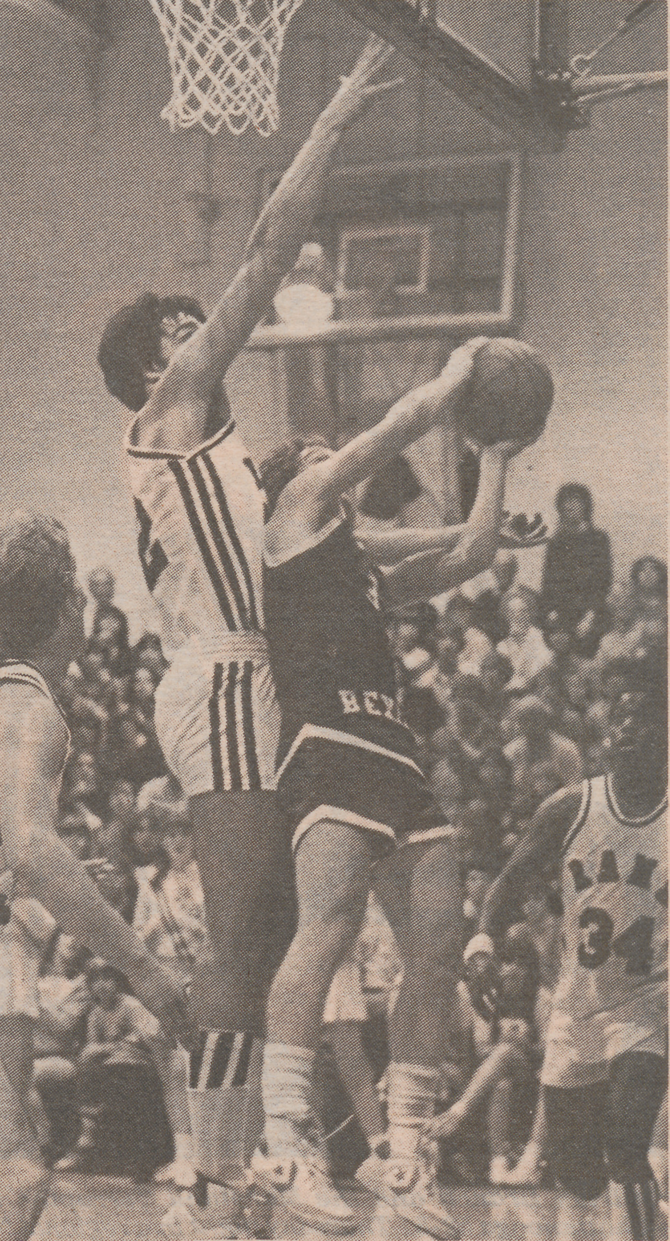 Martin Nessley playing for Whitehall-Yearling High School. Scanned from a 1983 issue of the Duke Chronicle, the student newspaper of Duke University